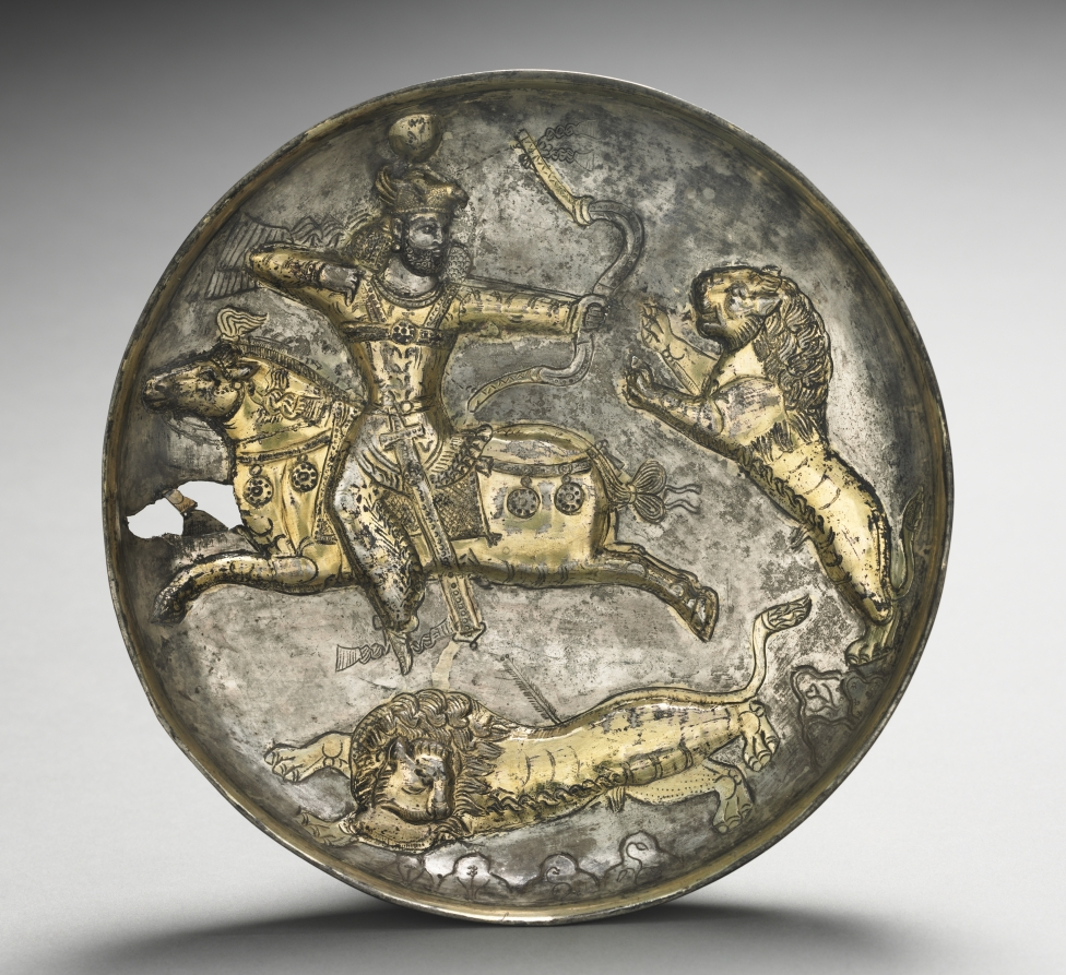 King Hormizd II or Hormizd III Hunting Lions, 400-600. It's most likely Hormizd III considering its dated from 400 to 600. Hormizd II's reign was a century before 400.